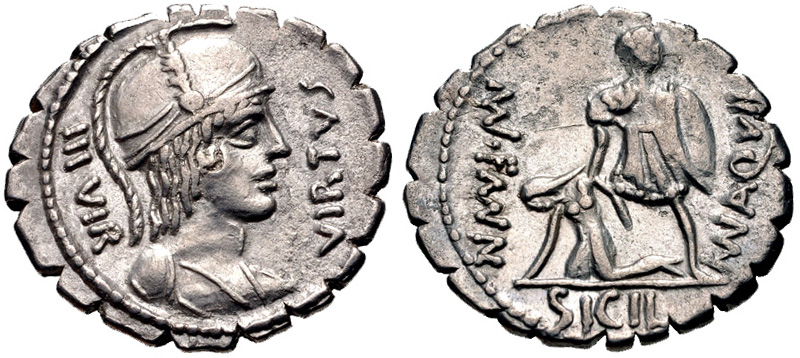 Mn. Aquillius Mn.f. Mn.n. 65 BC. AR Serrate Denarius (19mm, 3.72 g, 6h). Rome mint. Helmeted and draped bust of Virtus right / Mn. Aquillius standing right, holding shield and raising up kneeling figure of Sicily. Crawford 401/1; Sydenham 798; Aquillia 2. Good VF, minor porosity.